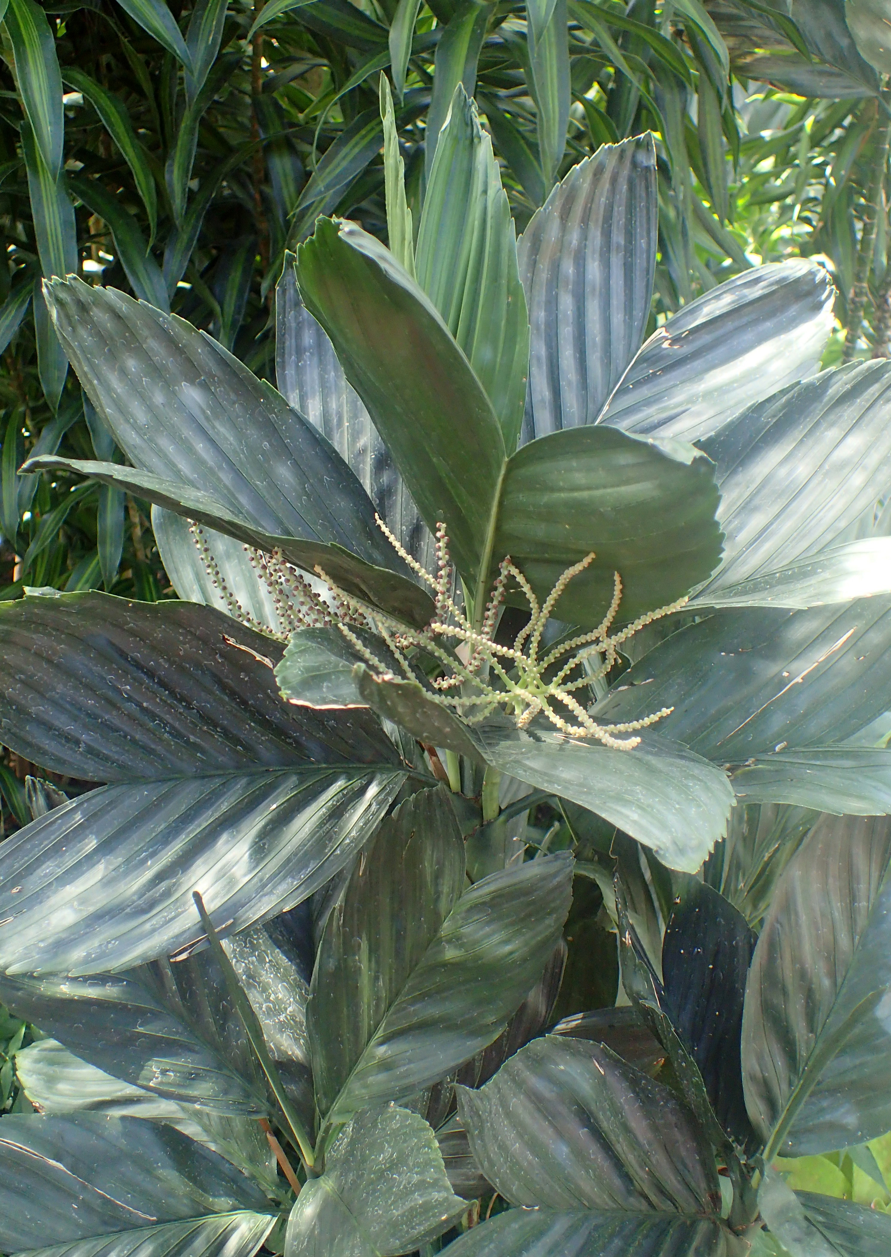 Chamaedorea metallica at Garfield Park Conservatory, Illinois USA